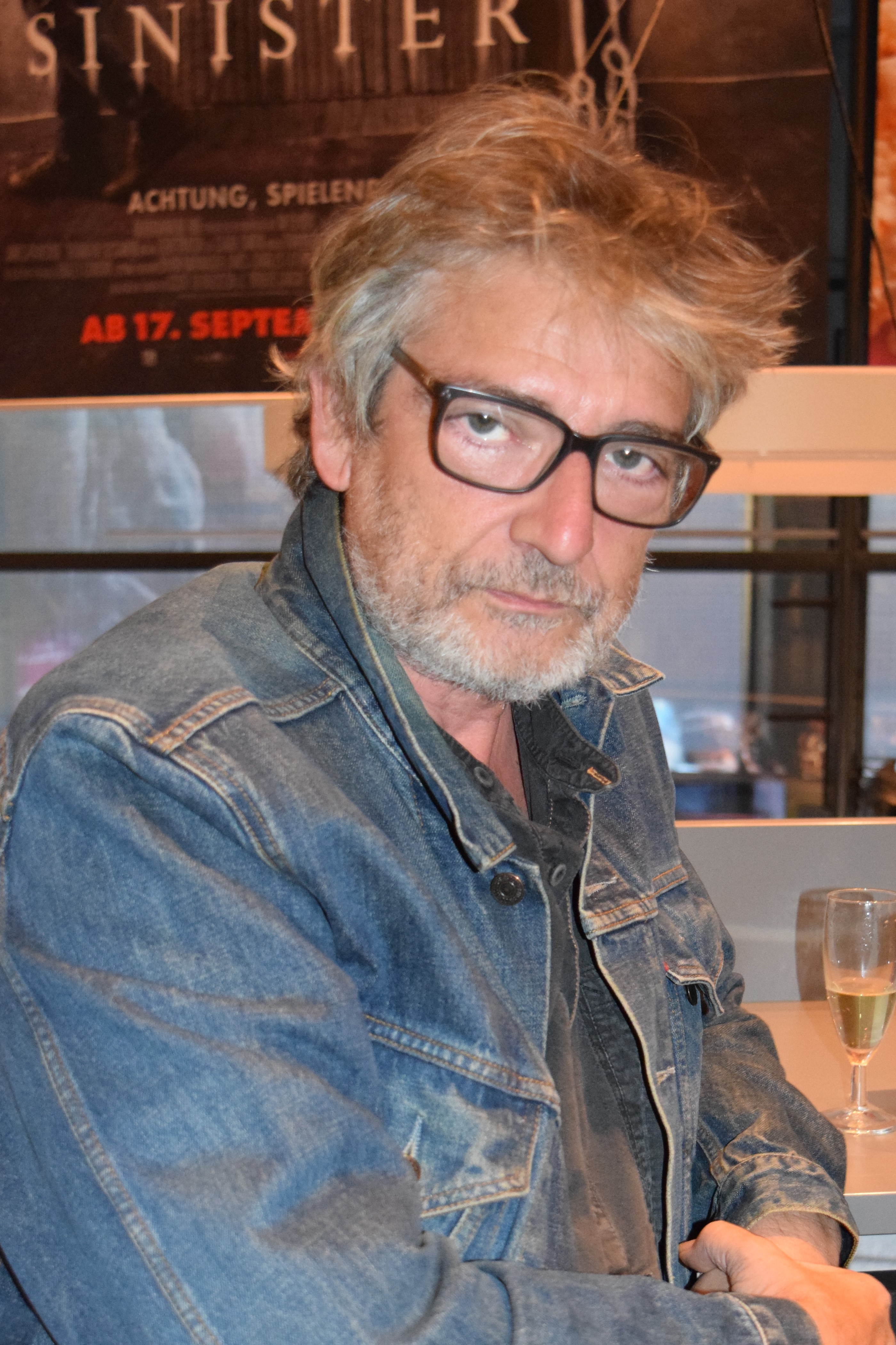 The director of cinema Manuel Huerga at the presentation of the film Barcelona, la Rose of Fire, at the cinema CinemaxX (Potsdamer Platz, Berlin). The event was also attended by the cinema producer Jaume Roures and Josep Guardiola, narrator of the english version of the film. Wednesday, 9 de september of 2015.